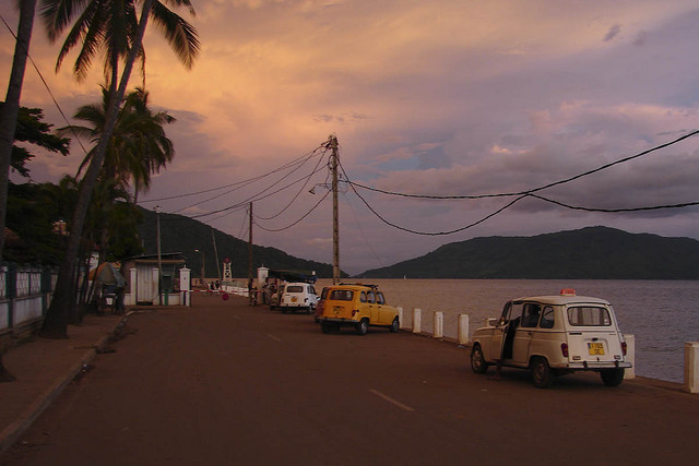 Hellville, the principal port and largest town on Nosy Be, an island off the northwest coast of Madagascar